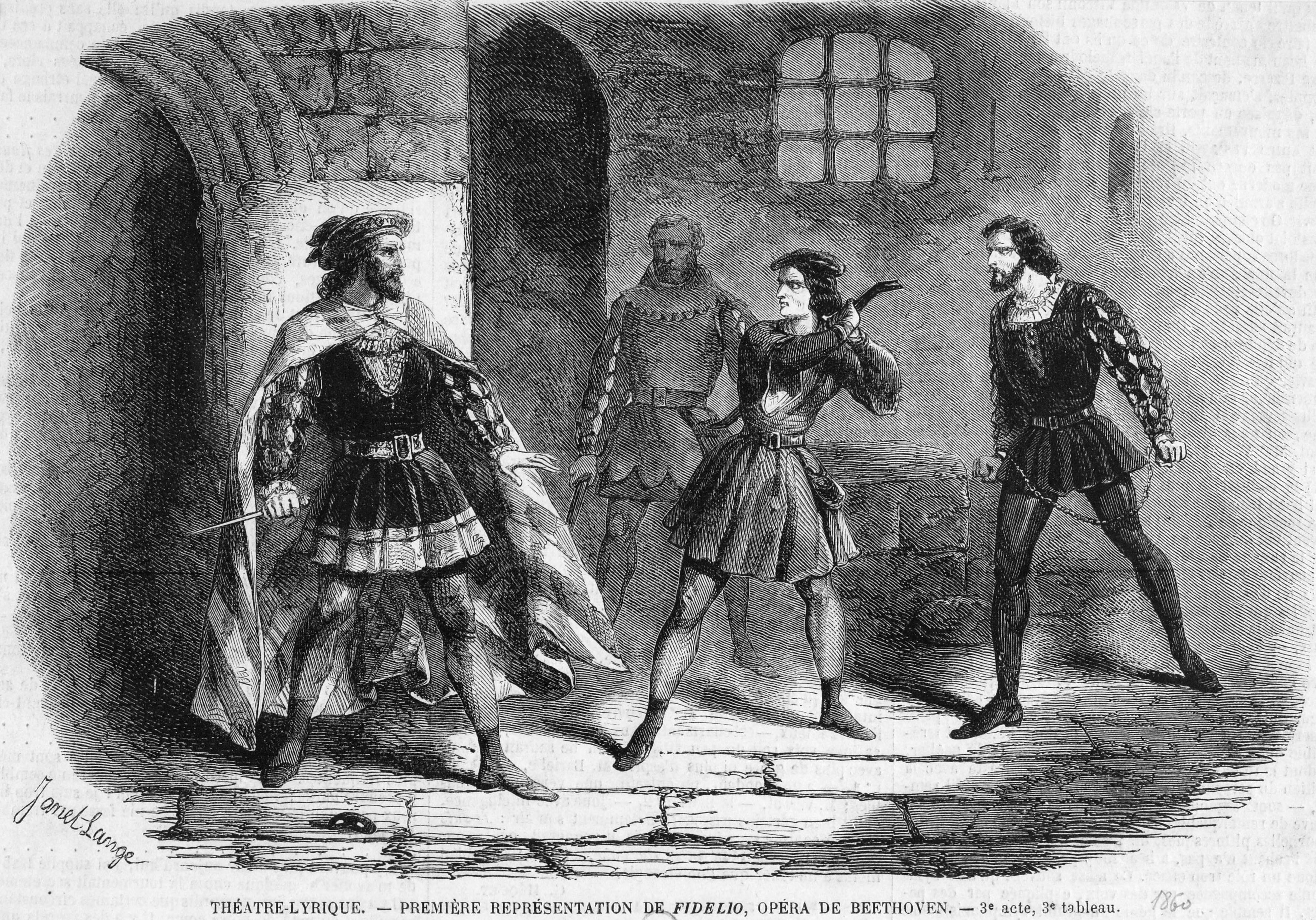 Act 3 of Beethoven's opera Fidelio as performed a the Théâtre Lyrique in 1860